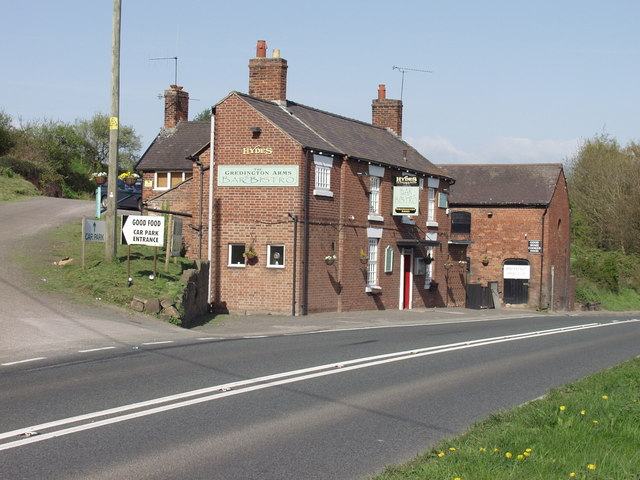 The Gredington Arms, Llan-y-pwll. A main road pub with a good cuisine and excellent beer from Hydes Brewery, Manchester.